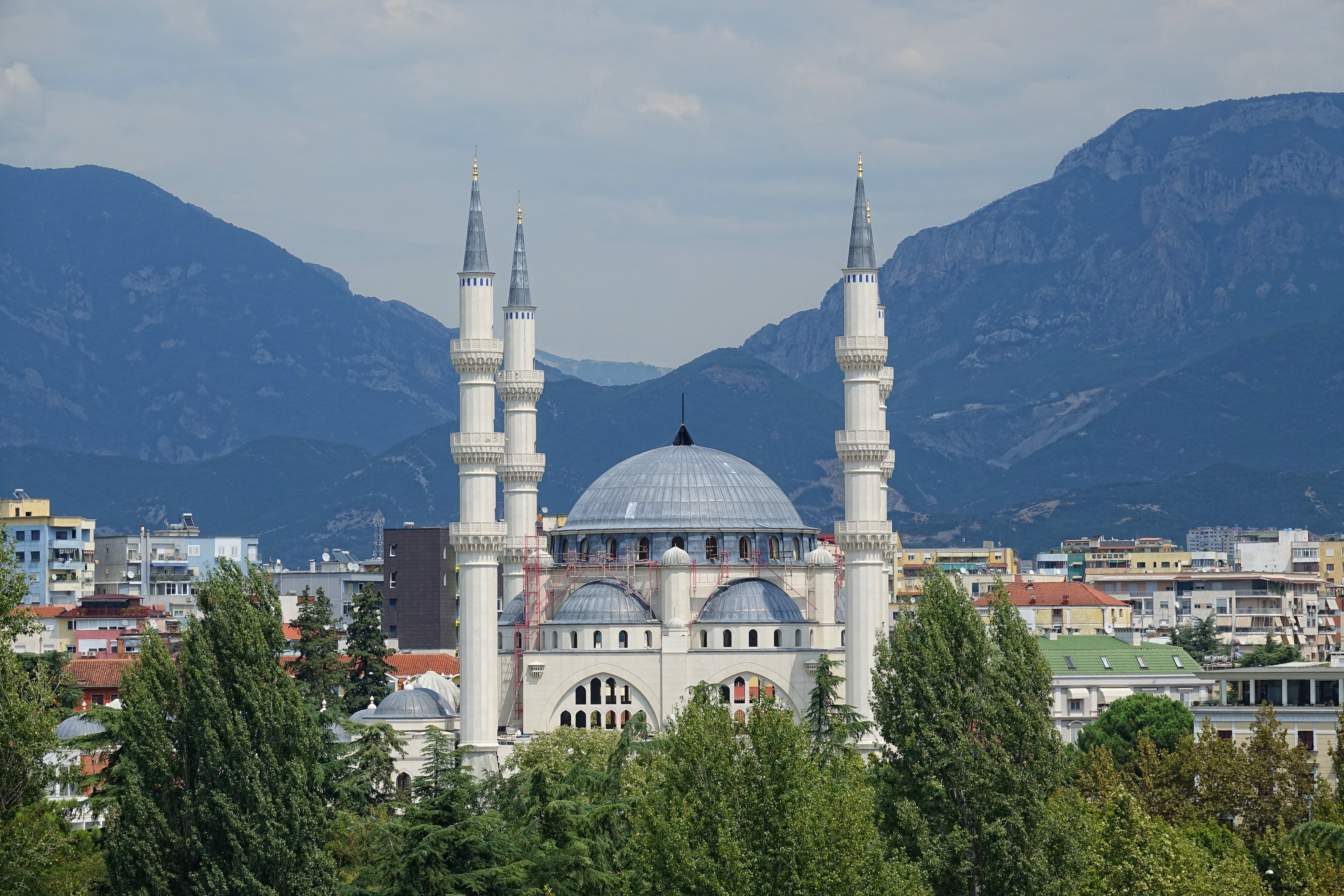 The Great Mosque of Tirana, Albania, as it was nearing completion.